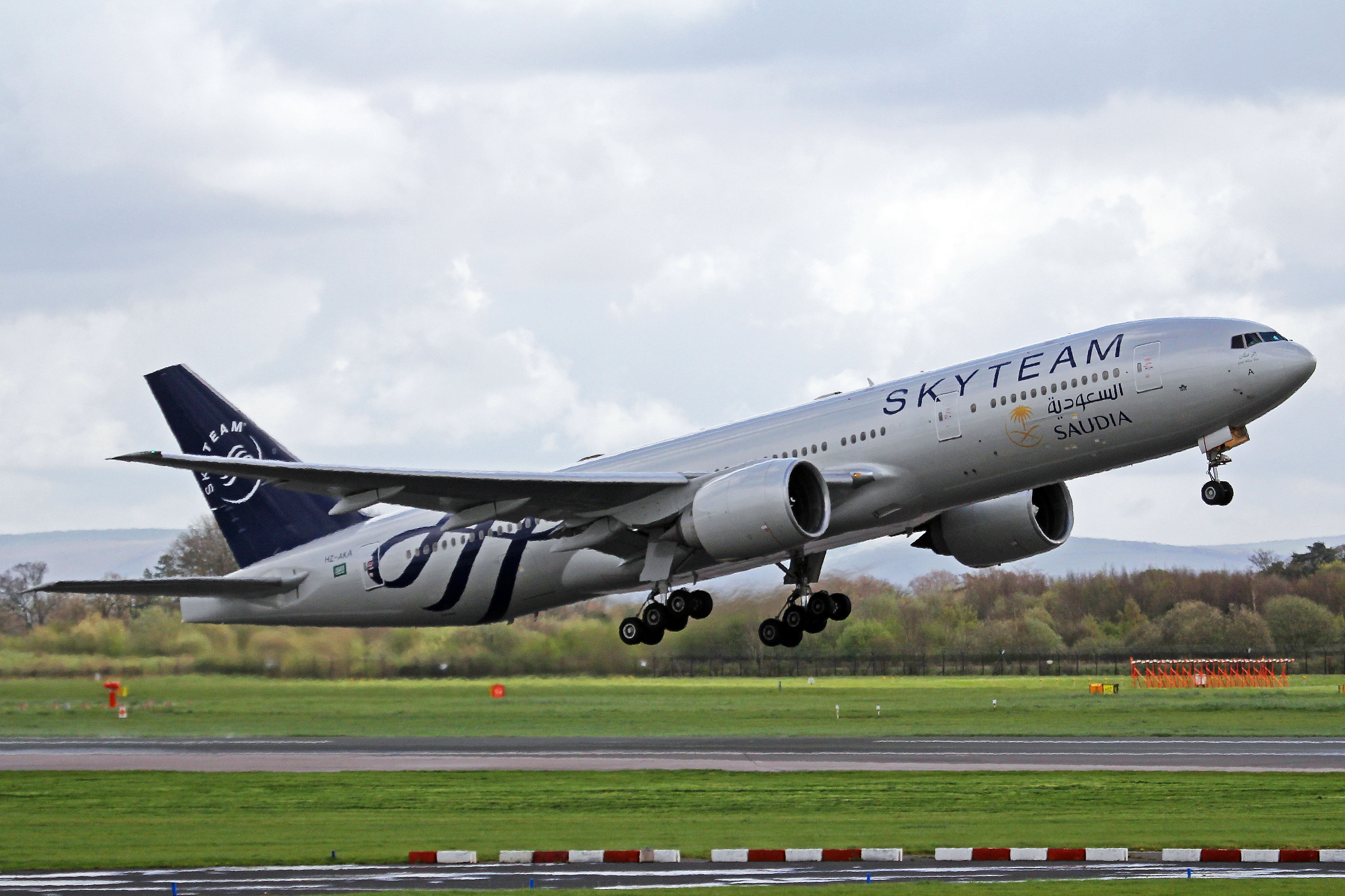 'SkyTeam' livery.